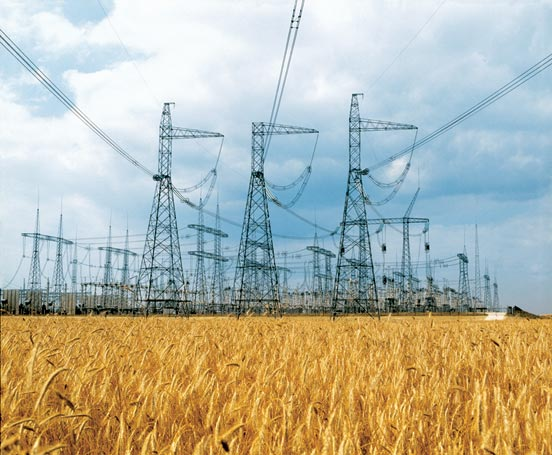 High-voltage substation and electricity pylons in an unidentified location (probably in Russia, or a neighbouring country)